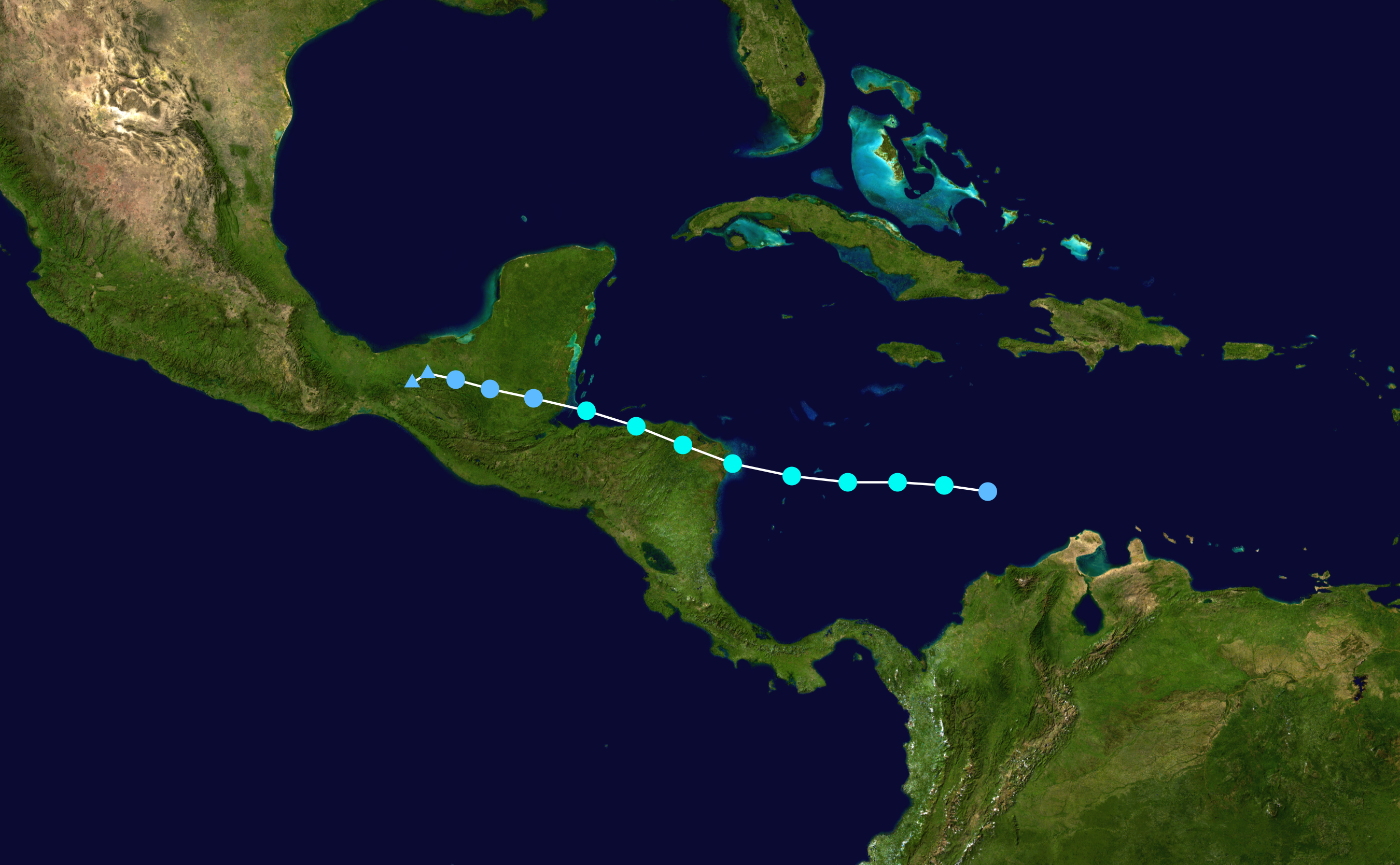 Track map of Tropical Storm Matthew of the 2010 Atlantic hurricane season. The points show the location of the storm at 6-hour intervals. The colour represents the storm's maximum sustained wind speeds as classified in the Saffir–Simpson scale (see below), and the shape of the data points represent the nature of the storm, according to the legend below. Saffir–Simpson scale Tropical depression≤38 mph≤62 km/h Category 3111–129 mph178–208 km/h Tropical storm39–73 mph63–118 km/h Category 4130–156 mph209–251 km/h Category 174–95 mph119–153 km/h Category 5≥157 mph≥252 km/h Category 296–110 mph154–177 km/h Unknown Storm type Tropical cyclone Subtropical cyclone Extratropical cyclone / Remnant low / Tropical disturbance / Monsoon depression